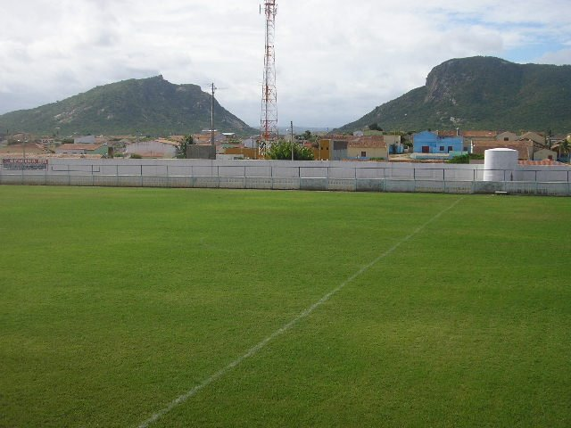 Visão privilegiada da cabine do estádio Laurentino Bazerra em Parelhas-RN